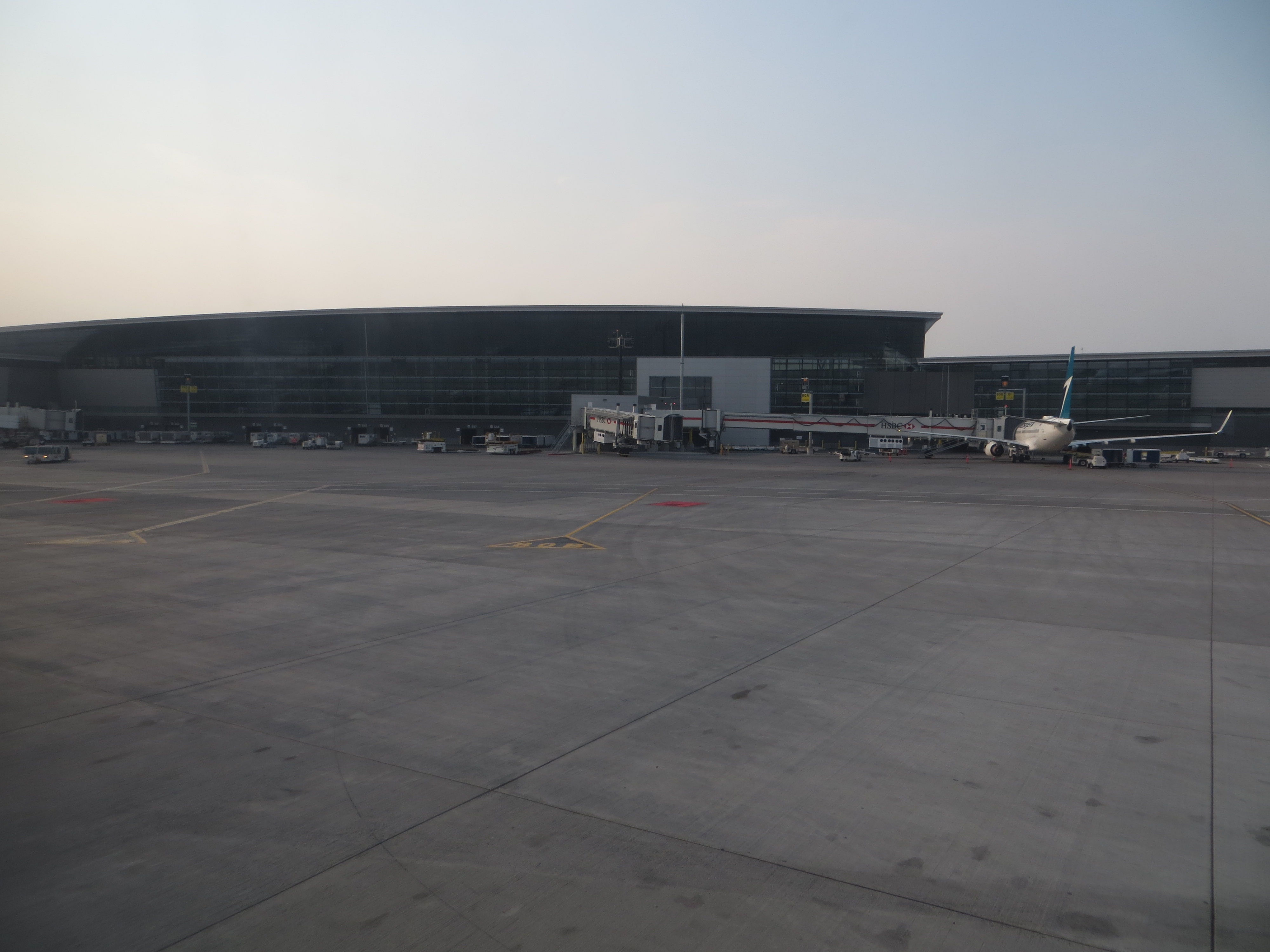 This is the International Terminal of Calgary Airport, Alberta.